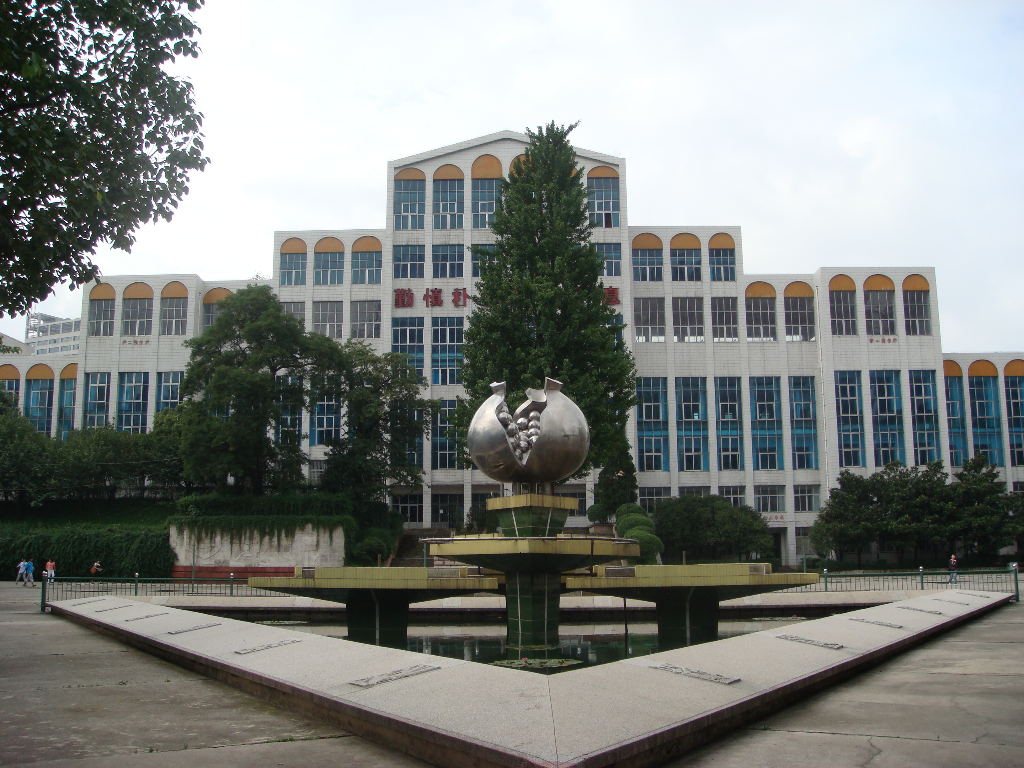 Old campus of Guiyang No.1 High School